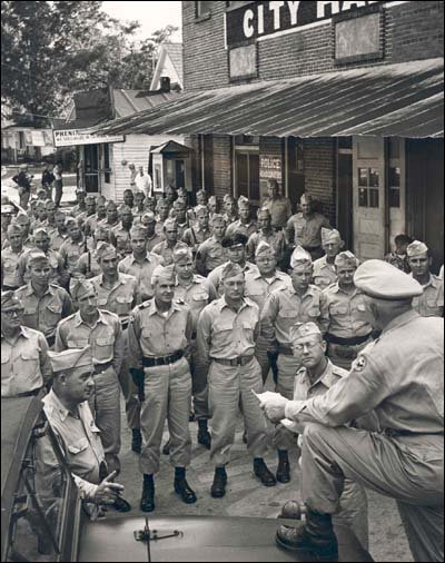 300 guardsmen deactivated following 6 months of martial law in Phenix City, AL, 1955